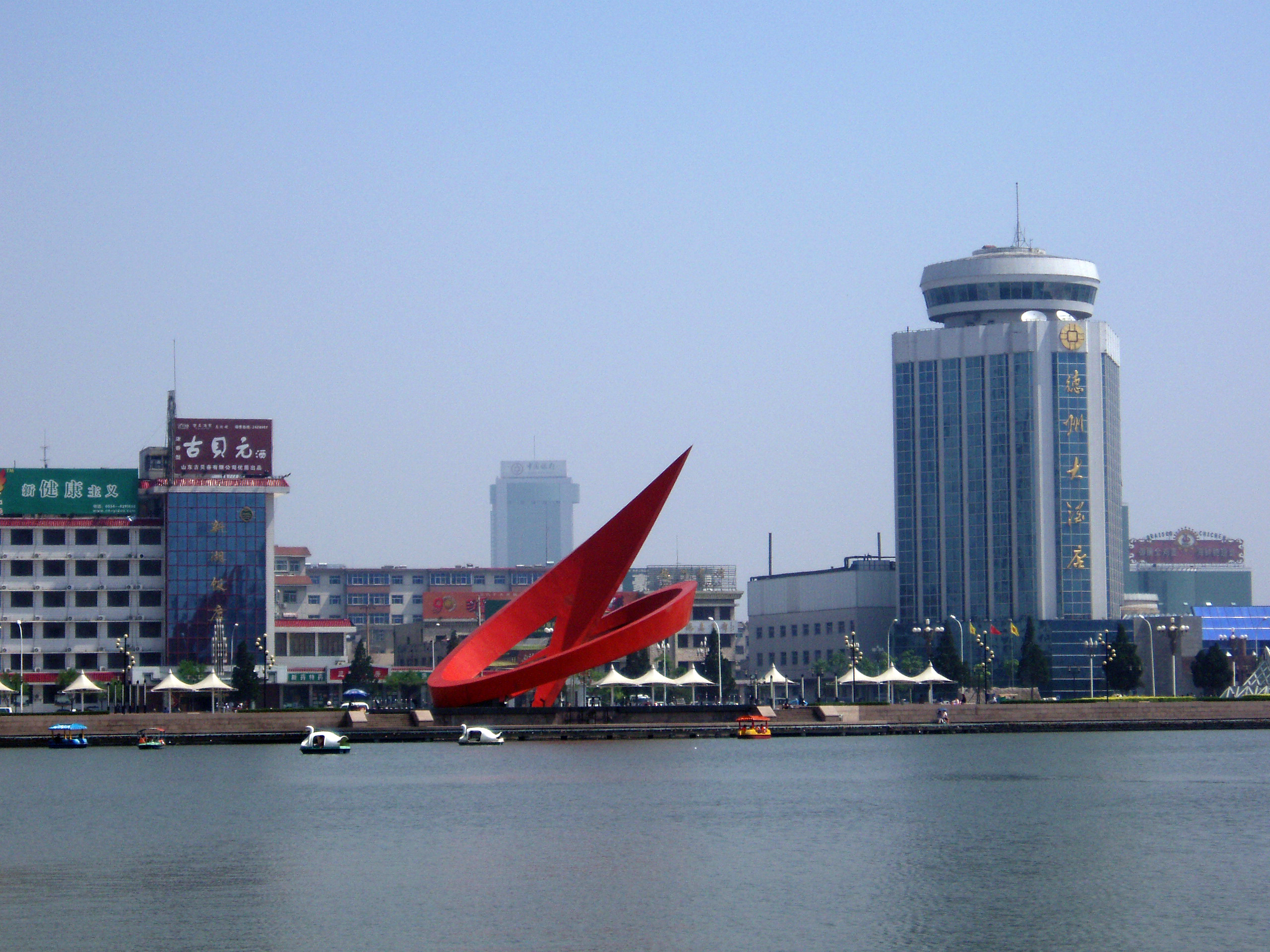 Dezhou, Shandong, China